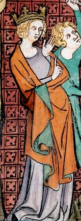 Fredegund